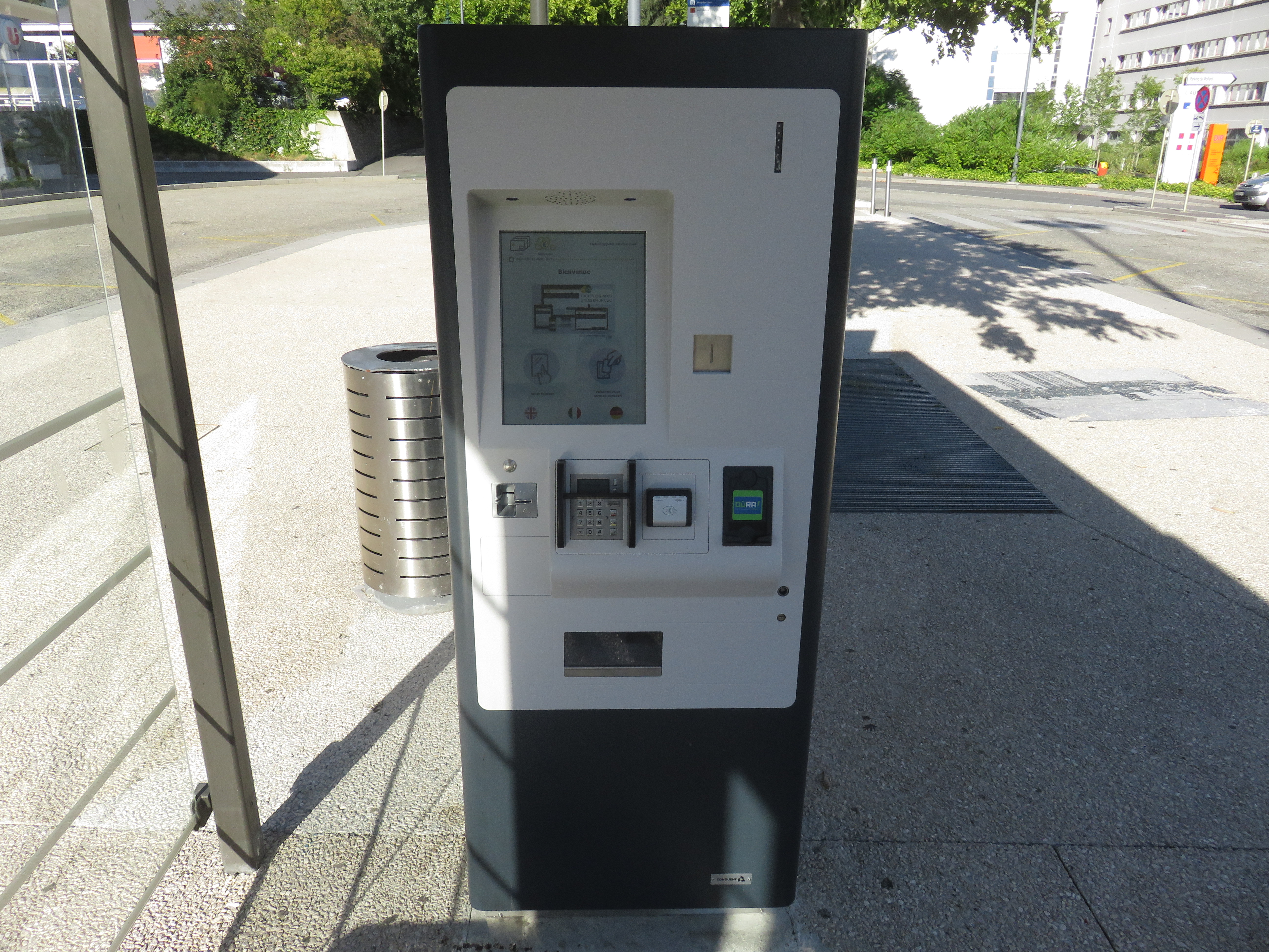 A distributeur automatique de tickets of the bus network Stac at the call Cévennes (Chambéry, France) on August 12, 2018.